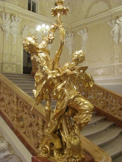 Detail of Staircase Opera Theatre of Odessa